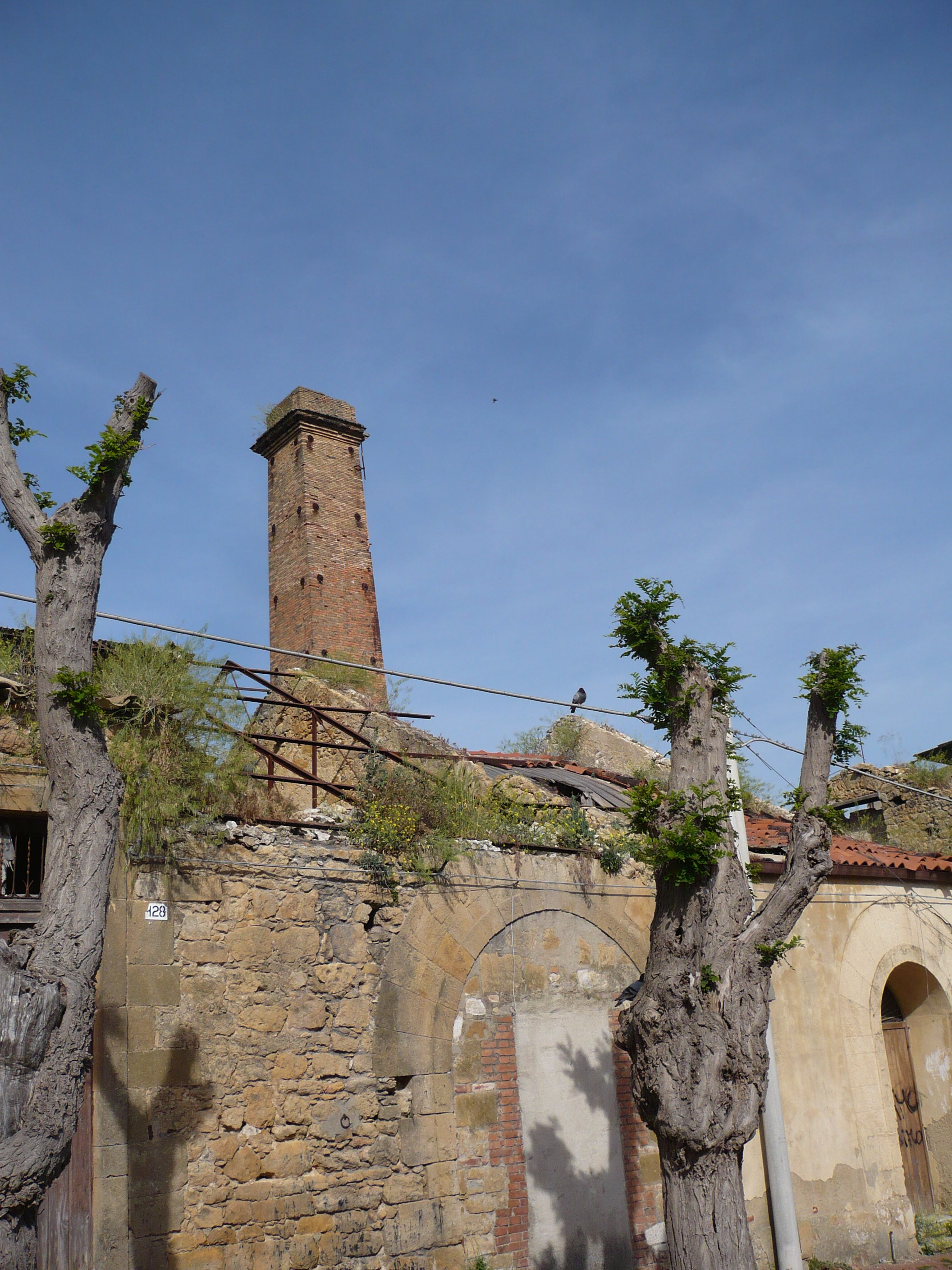 Gasometer of Caltanissetta in Street Angels 1867